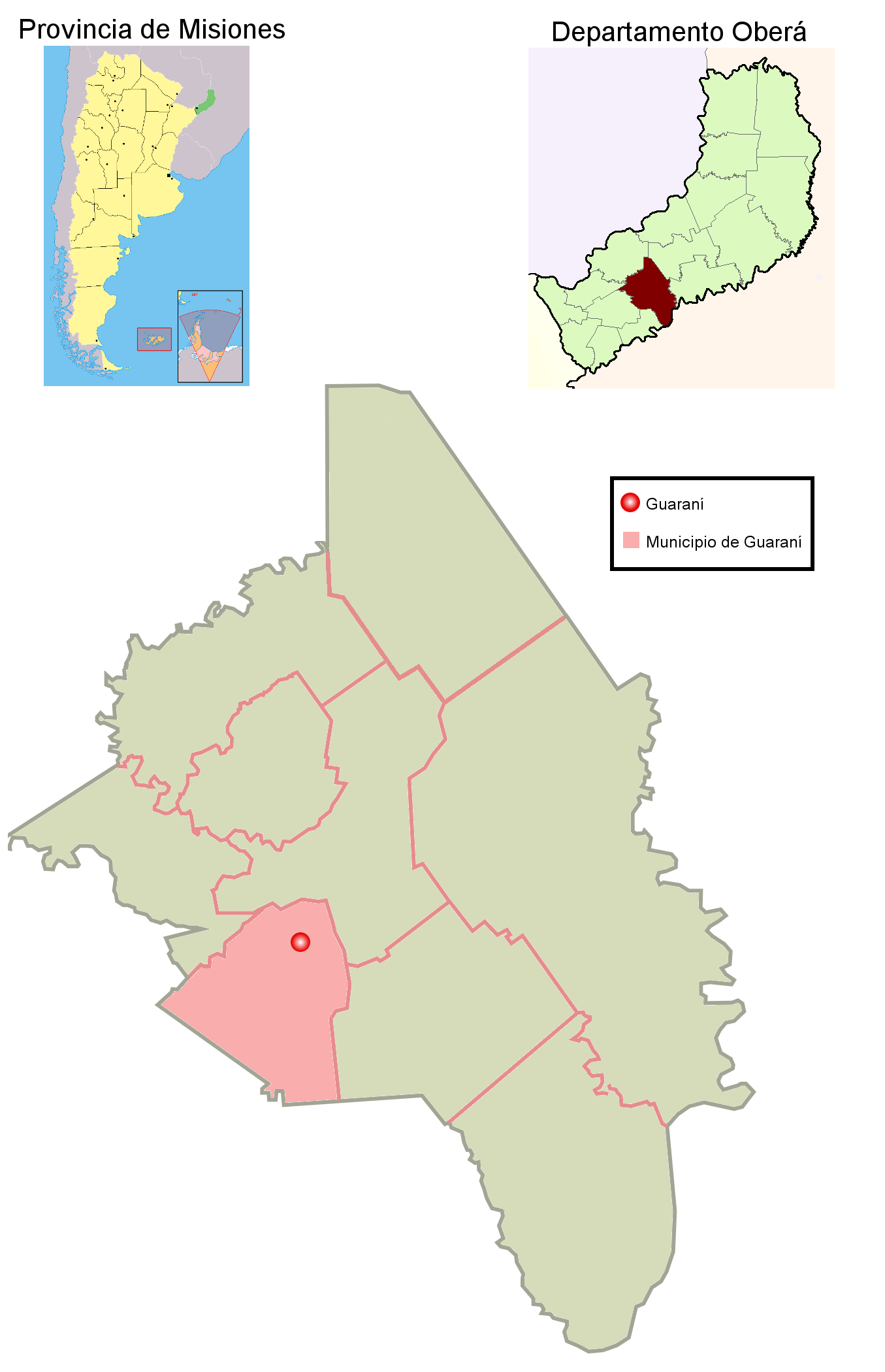 A map showing municipio of Guaraní in Oberá departament, Misiones province, Argentina. Also shows Guaraní town location. Created with GIMP.